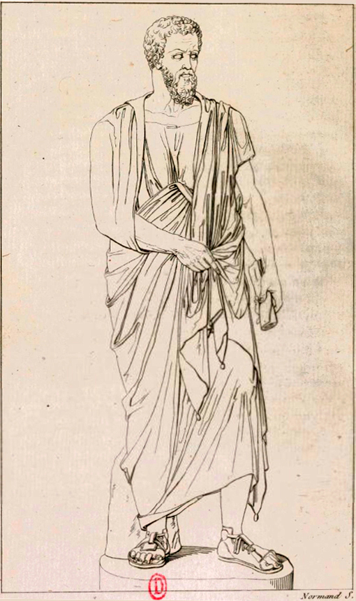 Engraving of a statue of Sextus of Chaeronea, Roman philosopher (fl. c. 160 AD).